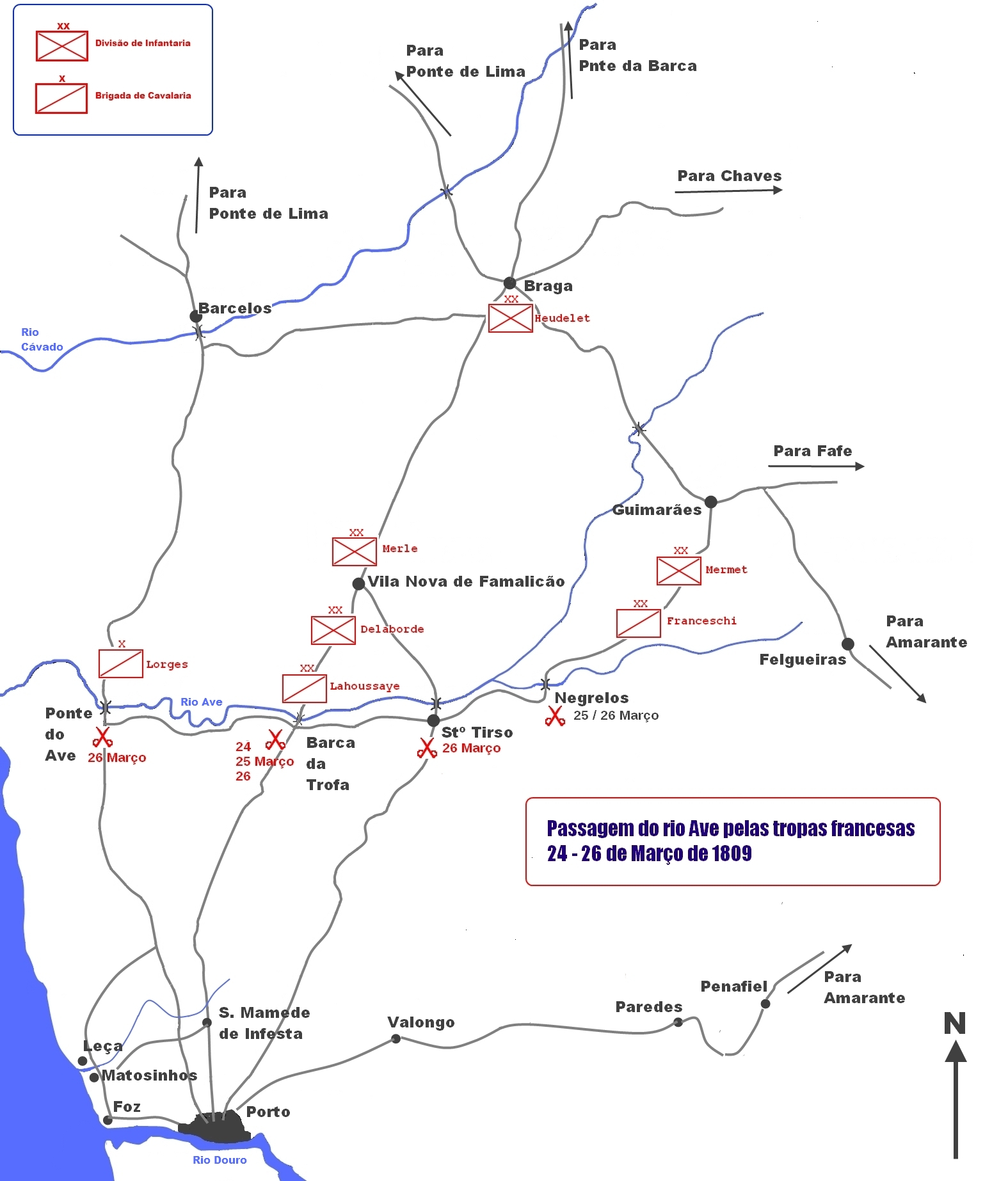 Map showing the disposition of French forces to cross the river Ave, during the Second French Invasion of Portugal, 24 to 26 March 1809.